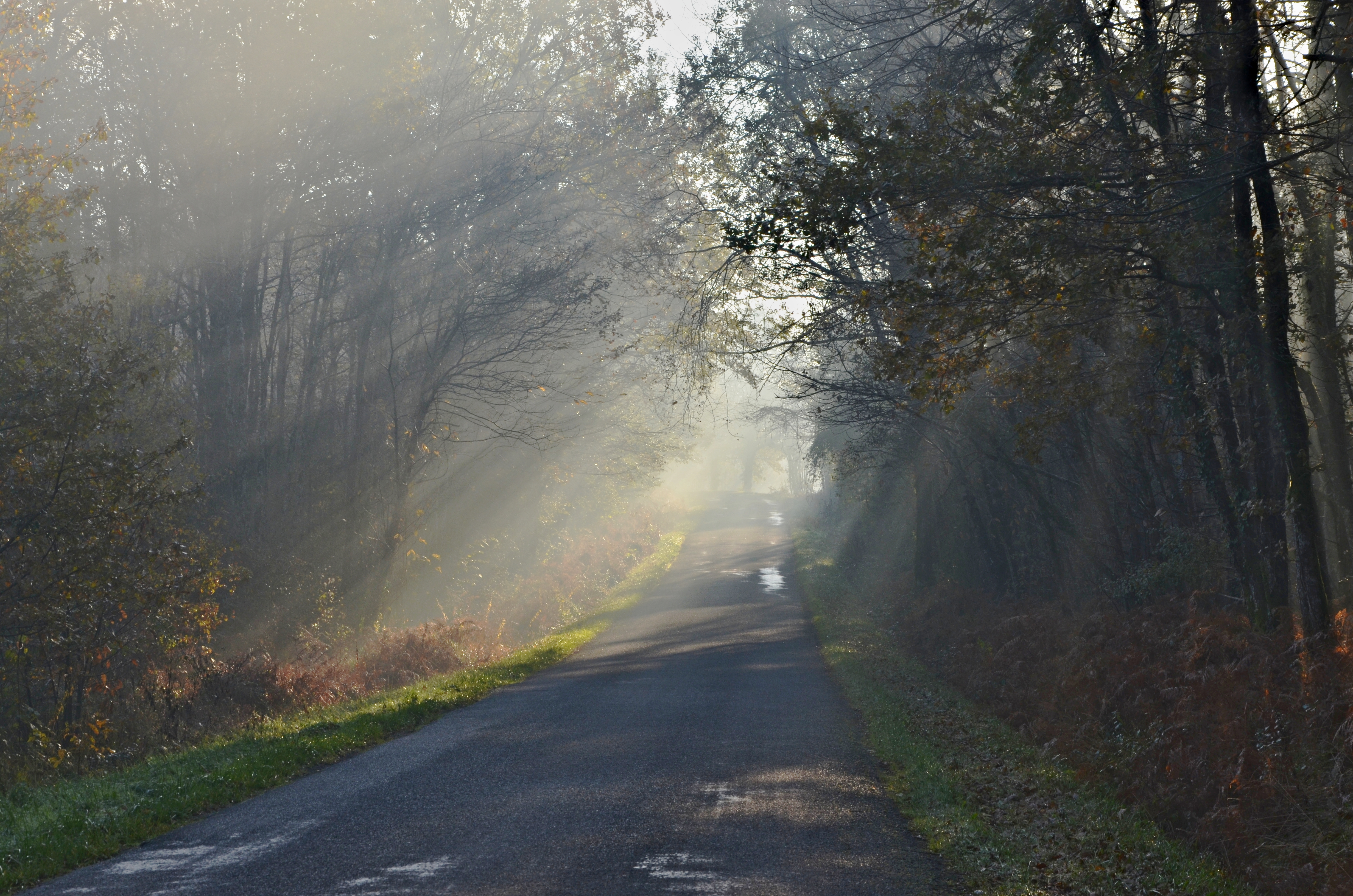 Country road D 19 on a hazy morning, near Juillaguet, Charente, France.